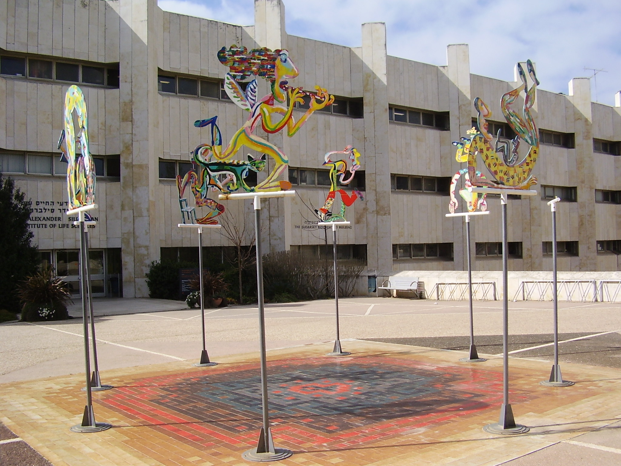 ststue in givat ram campus, jerusalem